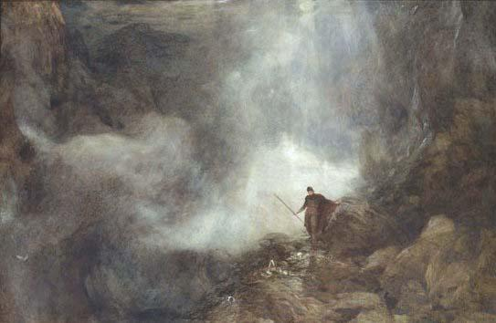 Henry Clarence White's Arthur in the Gruesome Glen, a painting whose subject is of King Arthur.